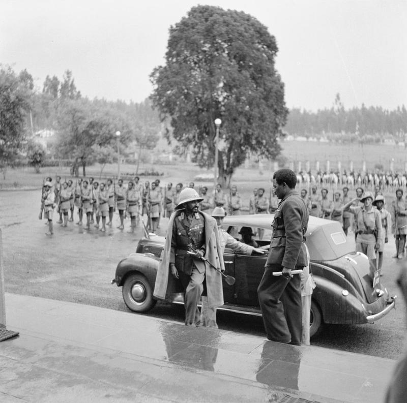 Haille Salassie Enters Addis Addis After five years to the day, a beflagged and decorated Addis Ababa turned out to watch their Emperor, Haille Selassie return in triumph to the capital of his liberated country. This image shows the Emperor mounting the steps of the Royal residence to take up his residence in Addis Ababa.